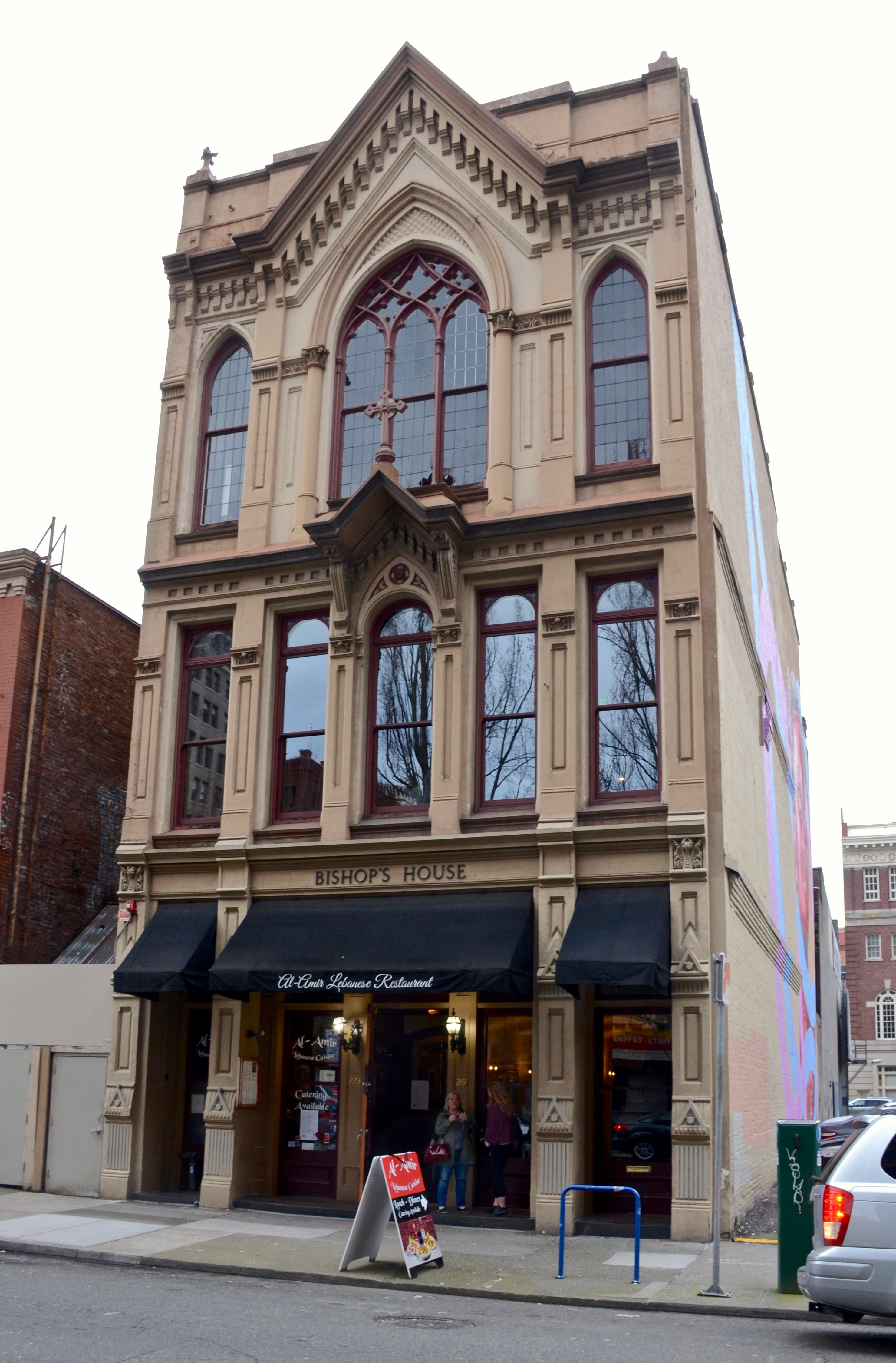 Bishop's House, in downtown Portland, Oregon, is a historic building that is listed on the U.S. National Register of Historic Places.